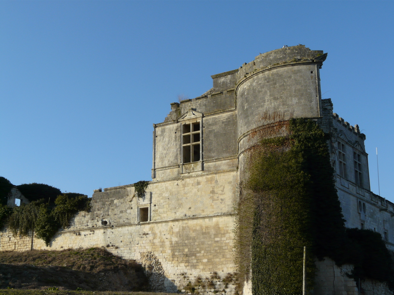 Ruins of Bouteville castle, Charente, France